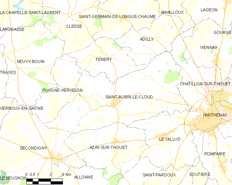 Map of French municipality Saint-Aubin-le-Cloud